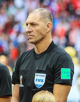 Saudi Arabia national football team